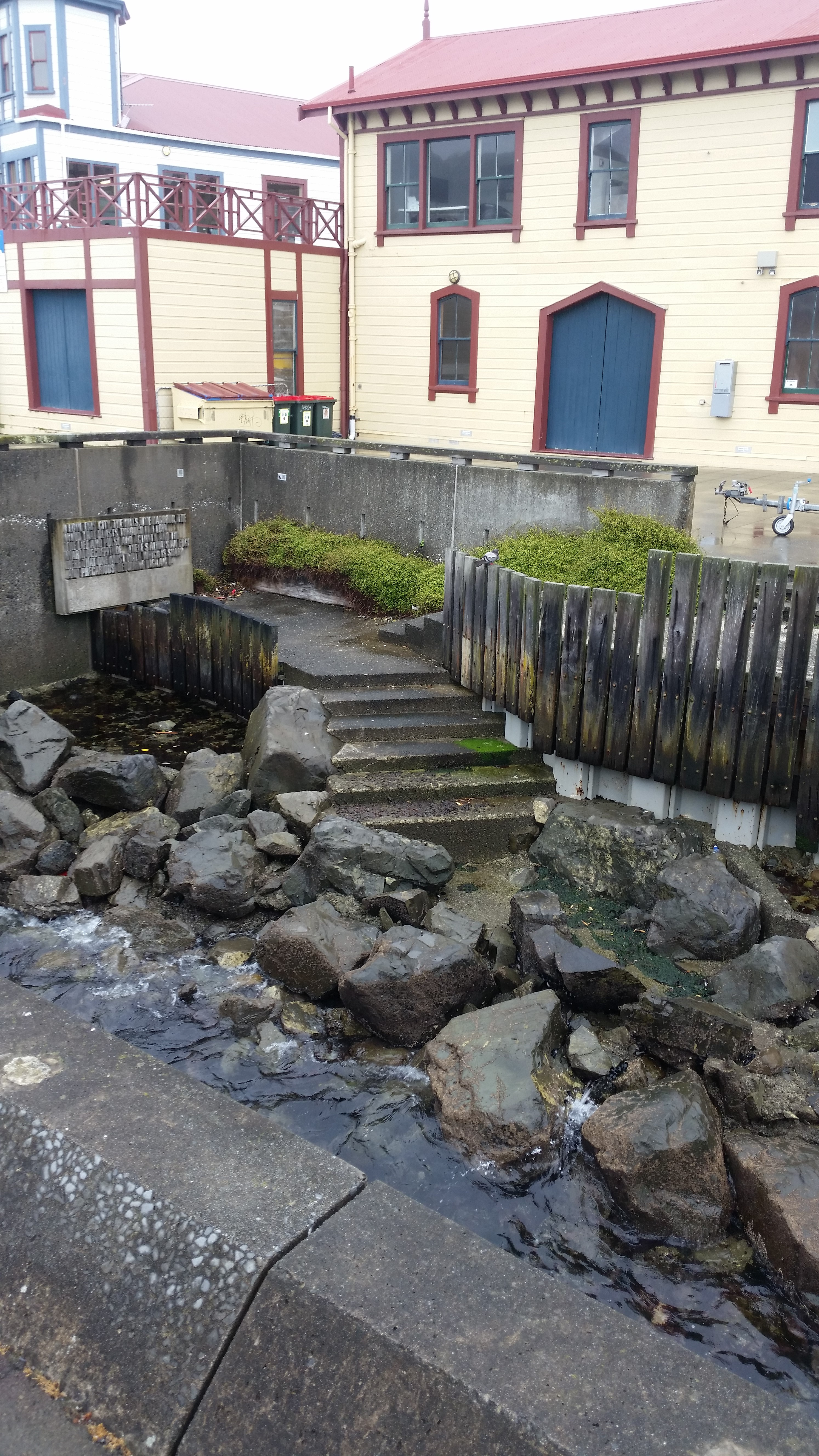 The quotation for Patricia Grace on the Wellington Writers Walk, Wellington, New Zealand